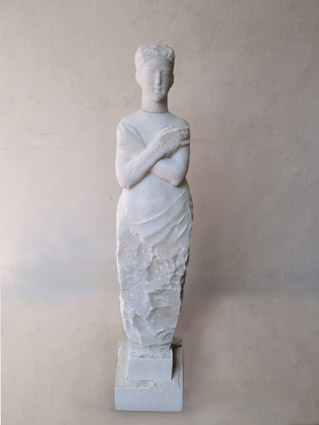 Cross my Heart - one of twelve marble sculptures (virgins) from an art installation, made by the Swedish sculptor Lars Widenfalk